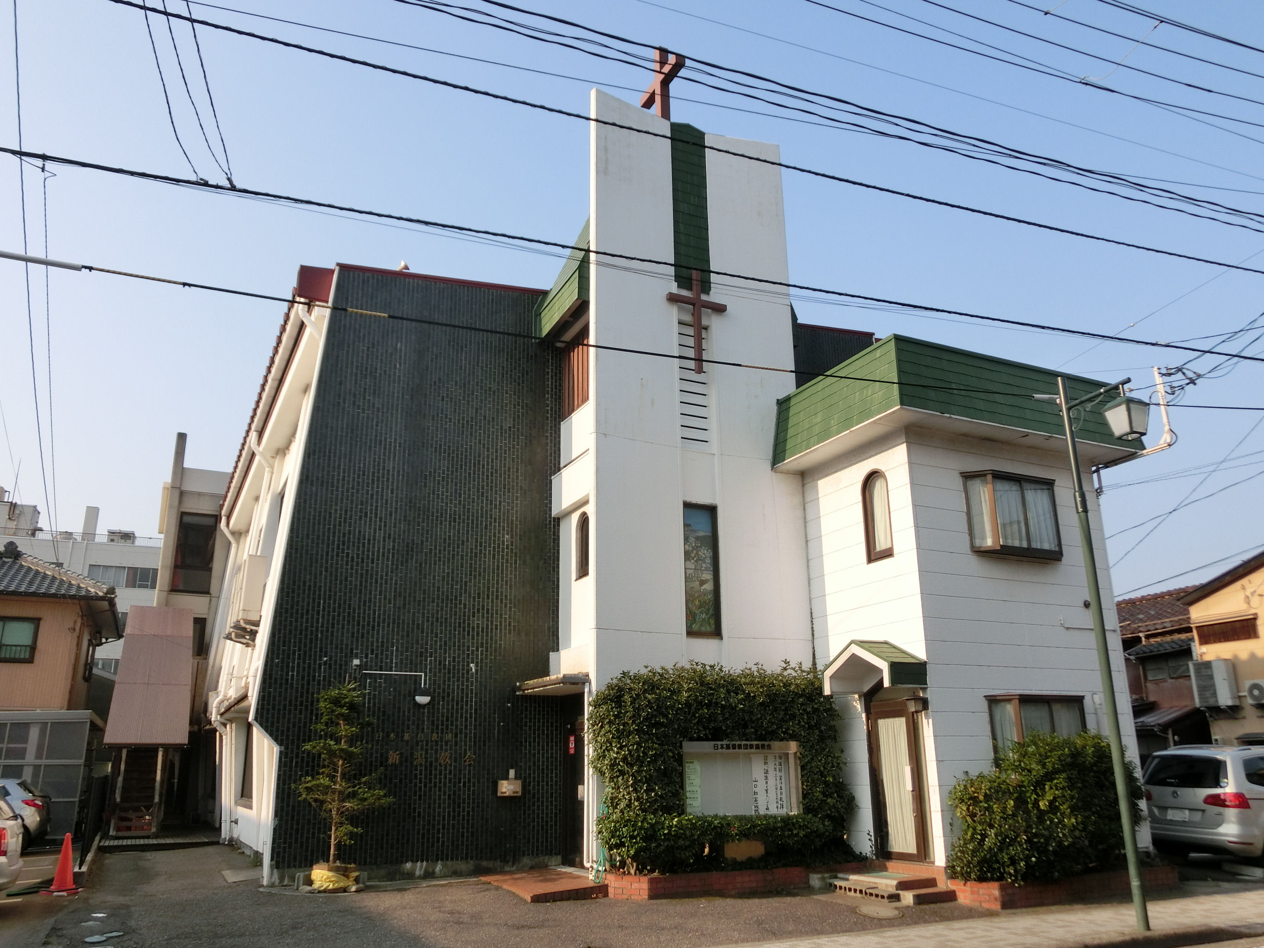 UCCJ Niigata Church